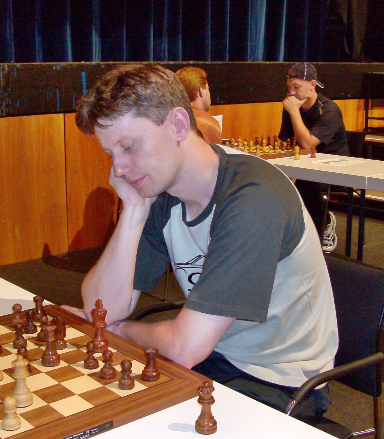 Zoltan Almasi, chess grandmaster from Hungary